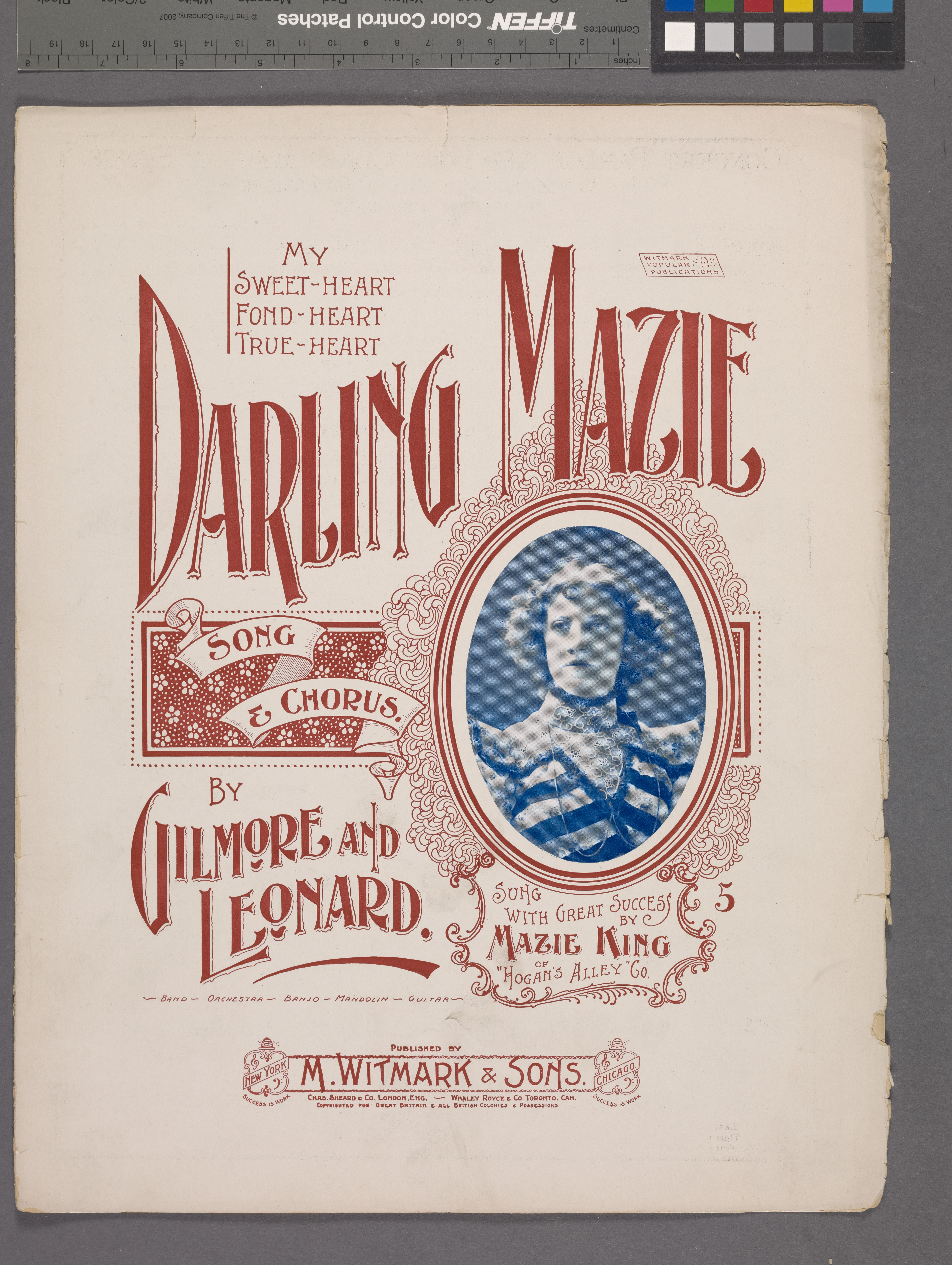 Cover includes photograph of Mazie King with the caption: Sung with great success by Mazie King of "Hogan's Alley" Co. Summary: The narrator admires his girlfriend. Statement of responsibility : words and music by Gilmore and Leonard.